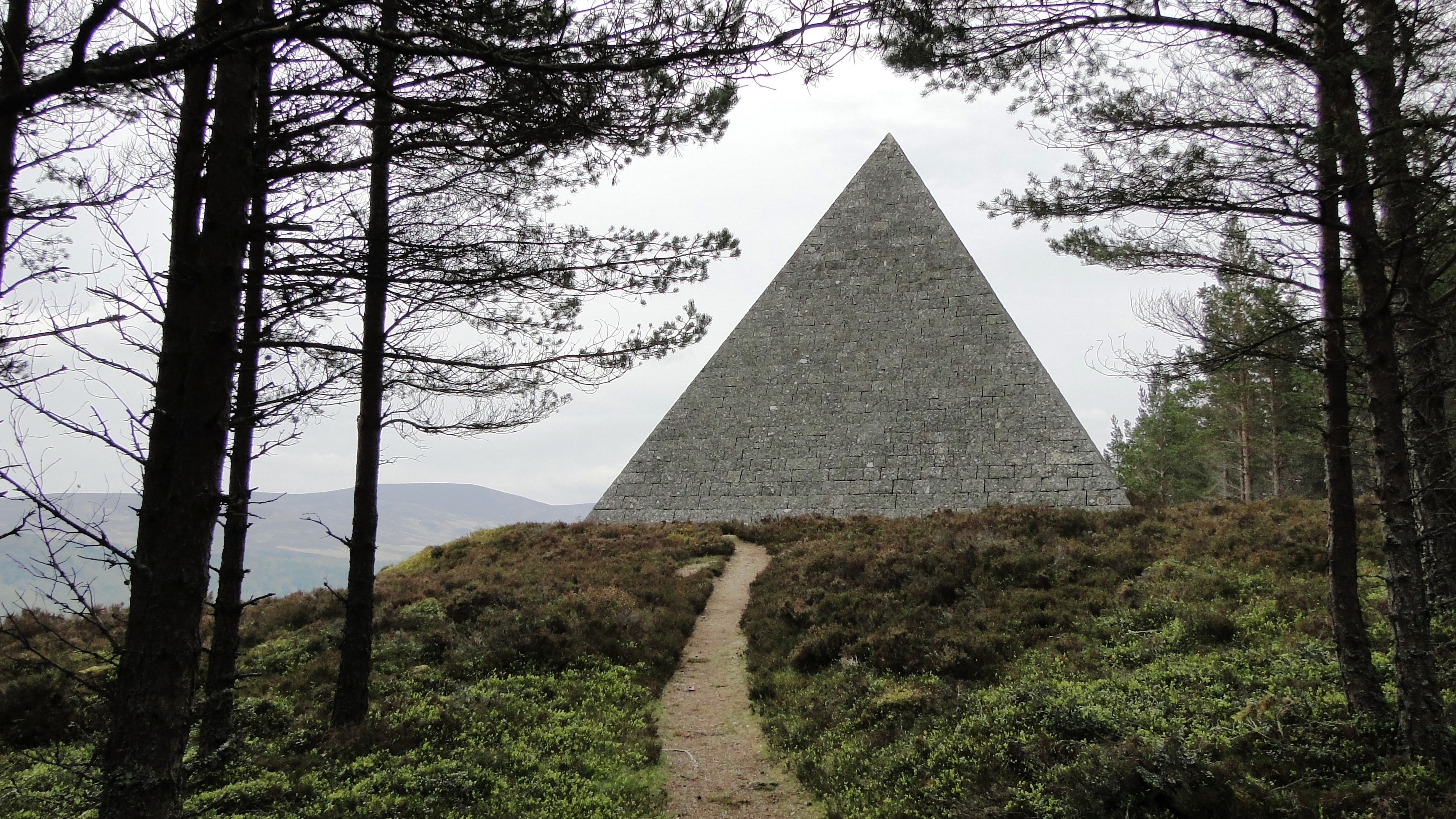 Cairn or pyramid commissioned by Queen Victoria for Prince Consort Albert, Balmoral Estate, Ballanter, Scotland